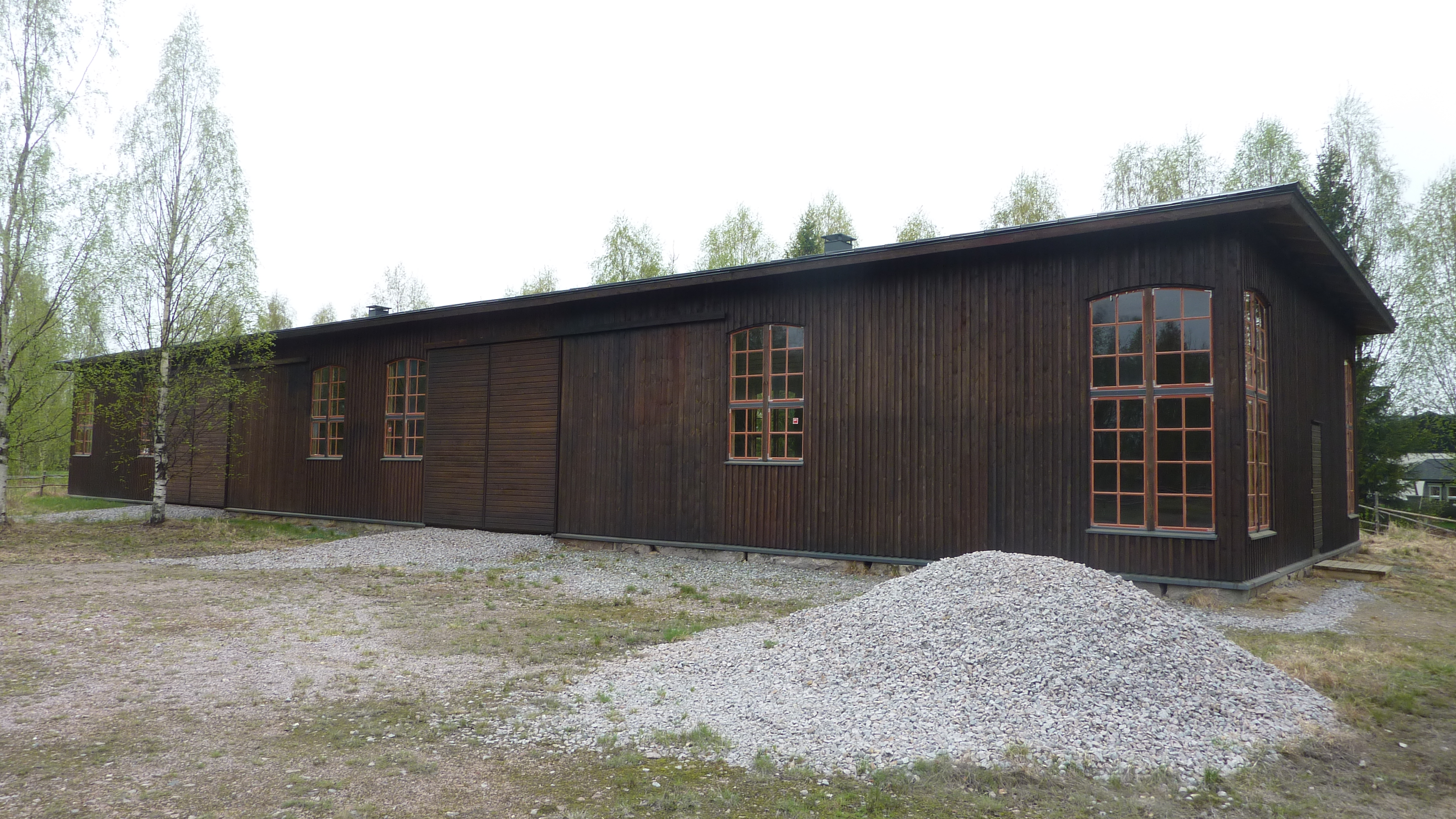 Tyrnävä museum of farming equipment